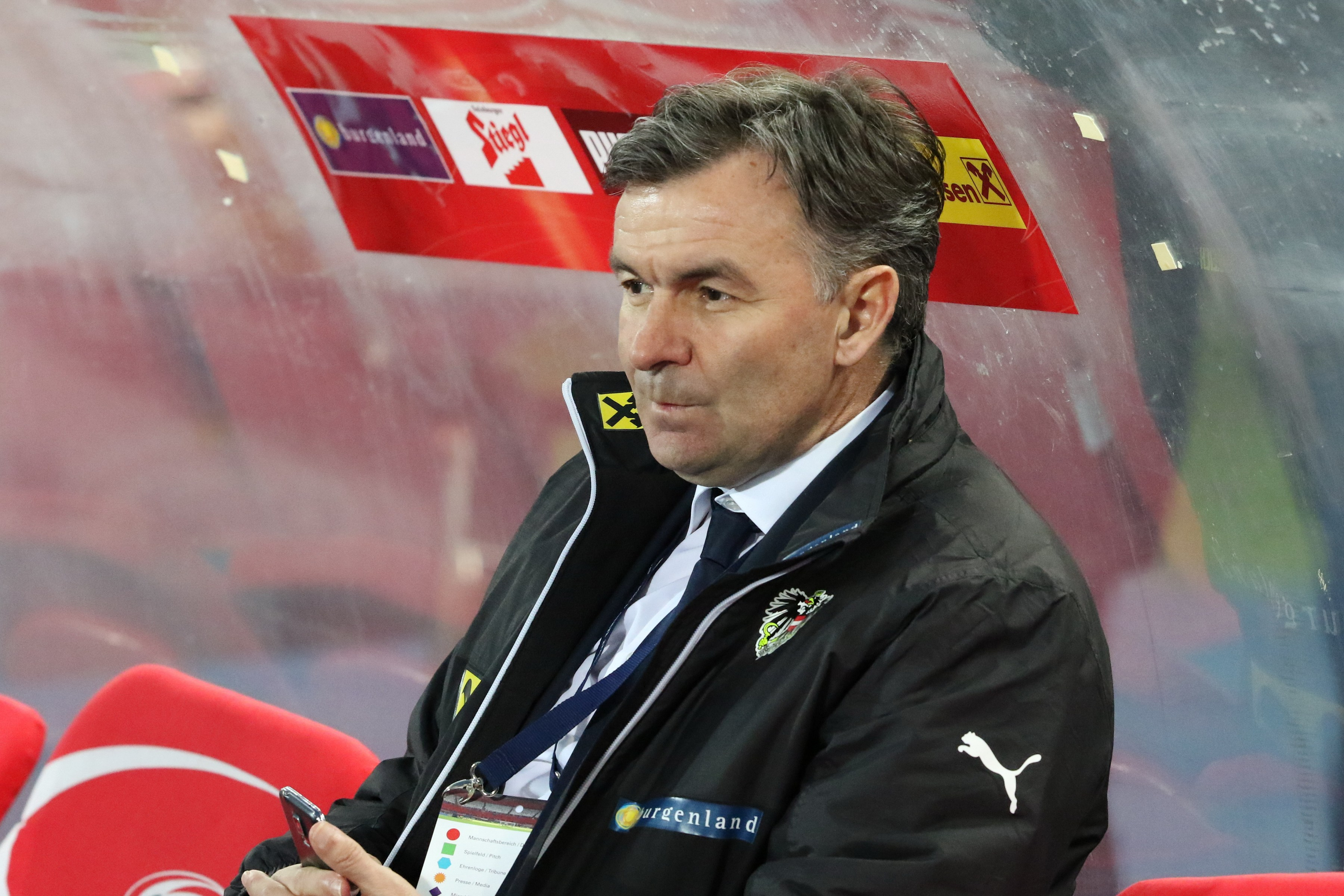 Friendly match – Austria (red shirts) vs. Turkey (blue shirts) 1–2 (1–1) on 2016-03-29 in Ernst-Happel-Stadion, Vienna – The photo shows Willi Ruttensteiner (director sports) of Austria.